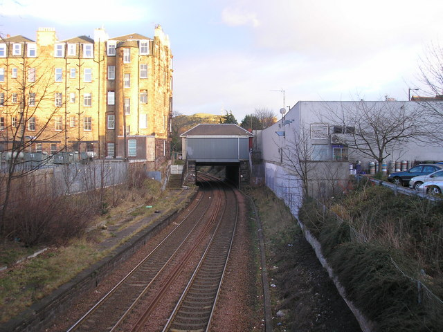 The former Morningside Station